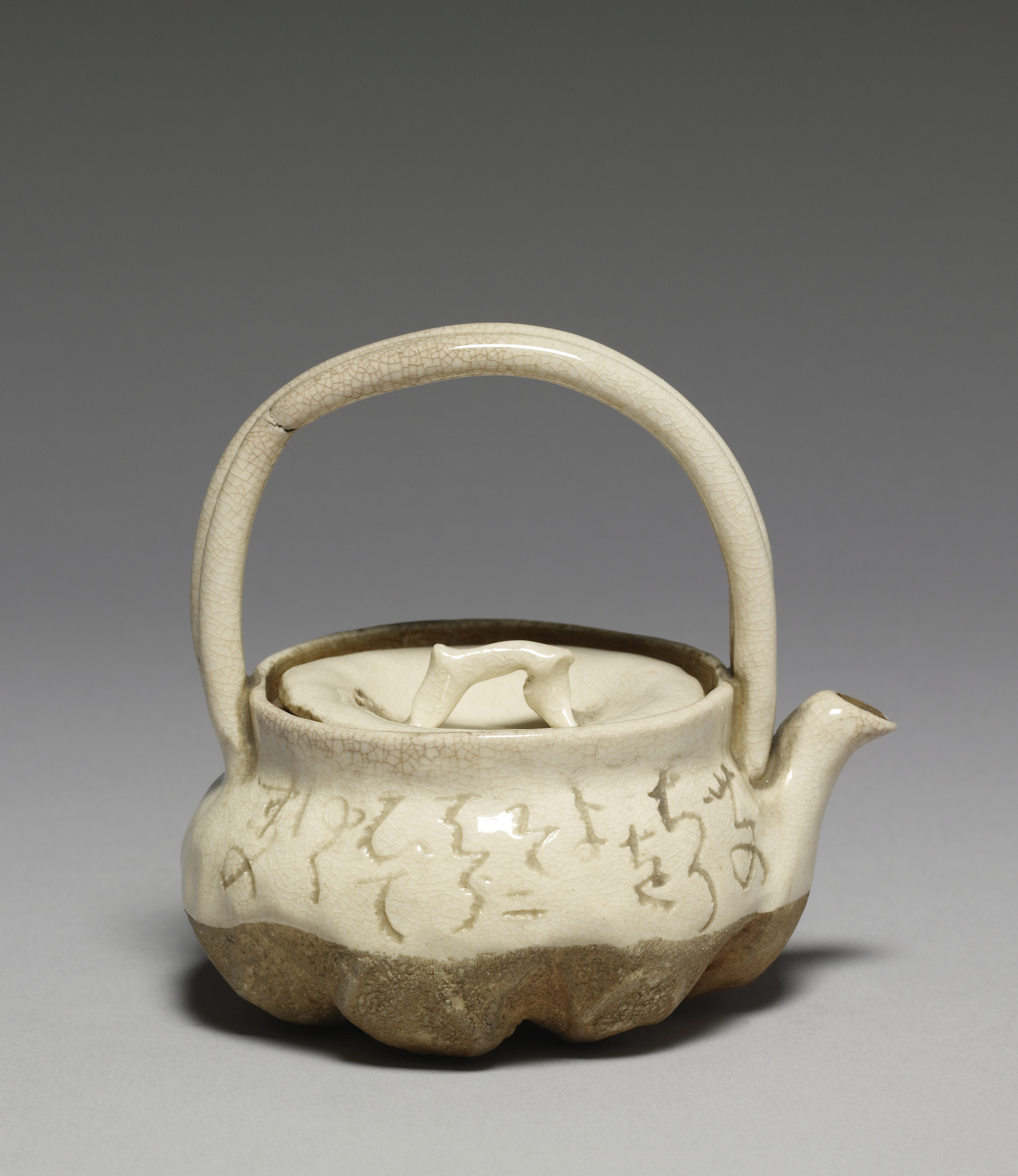 This small teapot (kyusu) is inscribed with a "waka" poem by Rengetsu I.